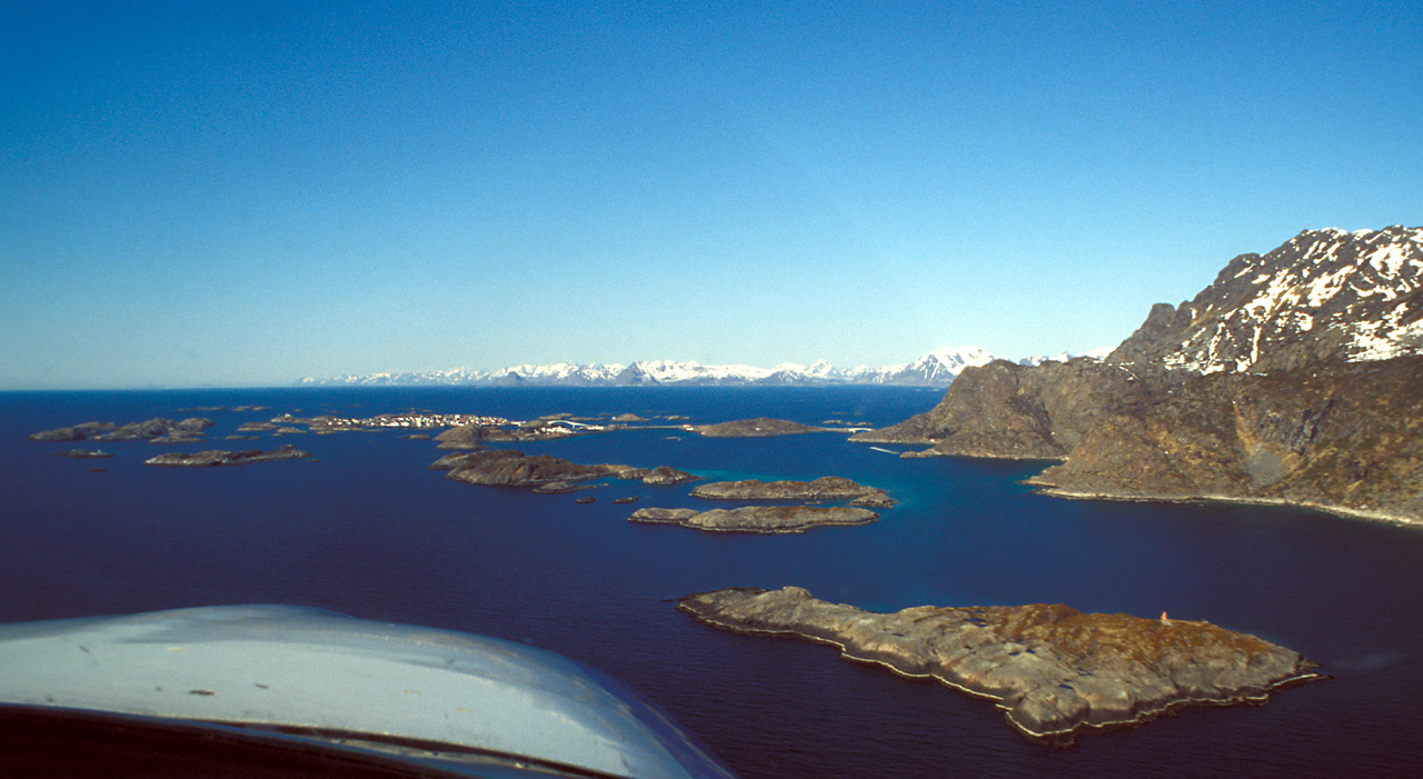 Lofoten, southside, seen from the air